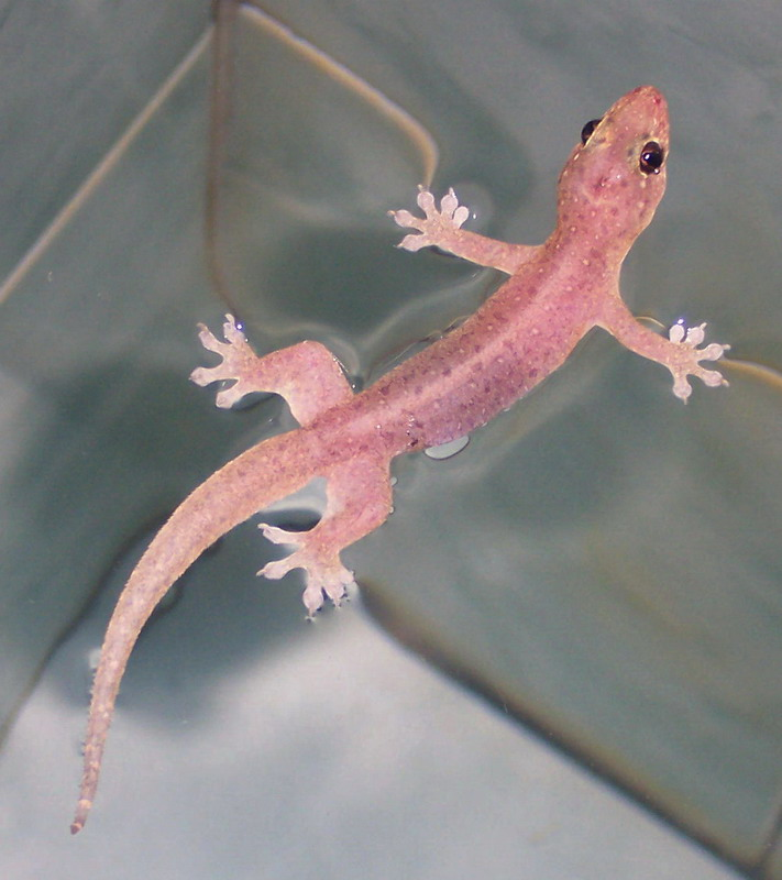 House gecko Gehyra mutilata, from Darmaga, Bogor, West Java, Indonesia